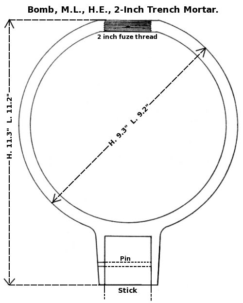 Diagram of British 2 inch Medium Trench Mortar Bomb, World War I. NOTE : The bomb size varied by up to .1" (inch). Bombs at the larger diameter of 9.3" (inches) were heavier and hence designated "H" or "Hv". Bombs at the lower diameter of 9.2" (inches) were lighter and hence designated "L". Bombs were painted dirty white, with a green band and percentage denoting Amatol filling, or a pink band indicating Ammonal filling. Overall length without tail 11.3 inches.